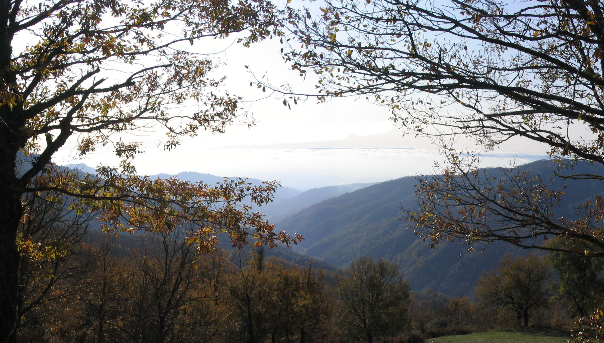 Valley of the Amato (or Lamato) river, near Corace river (San Pietro Apostolo, Calabria, Italy)